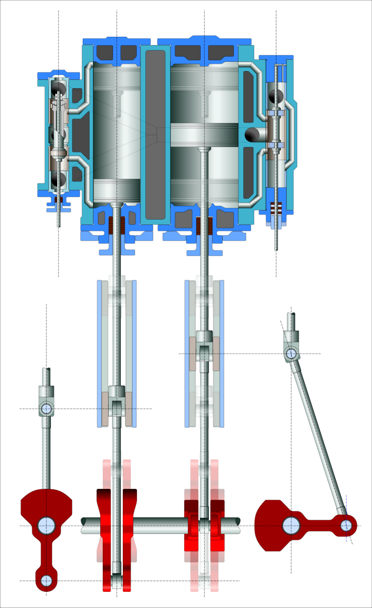 Compound engine with both piston and slide valves.